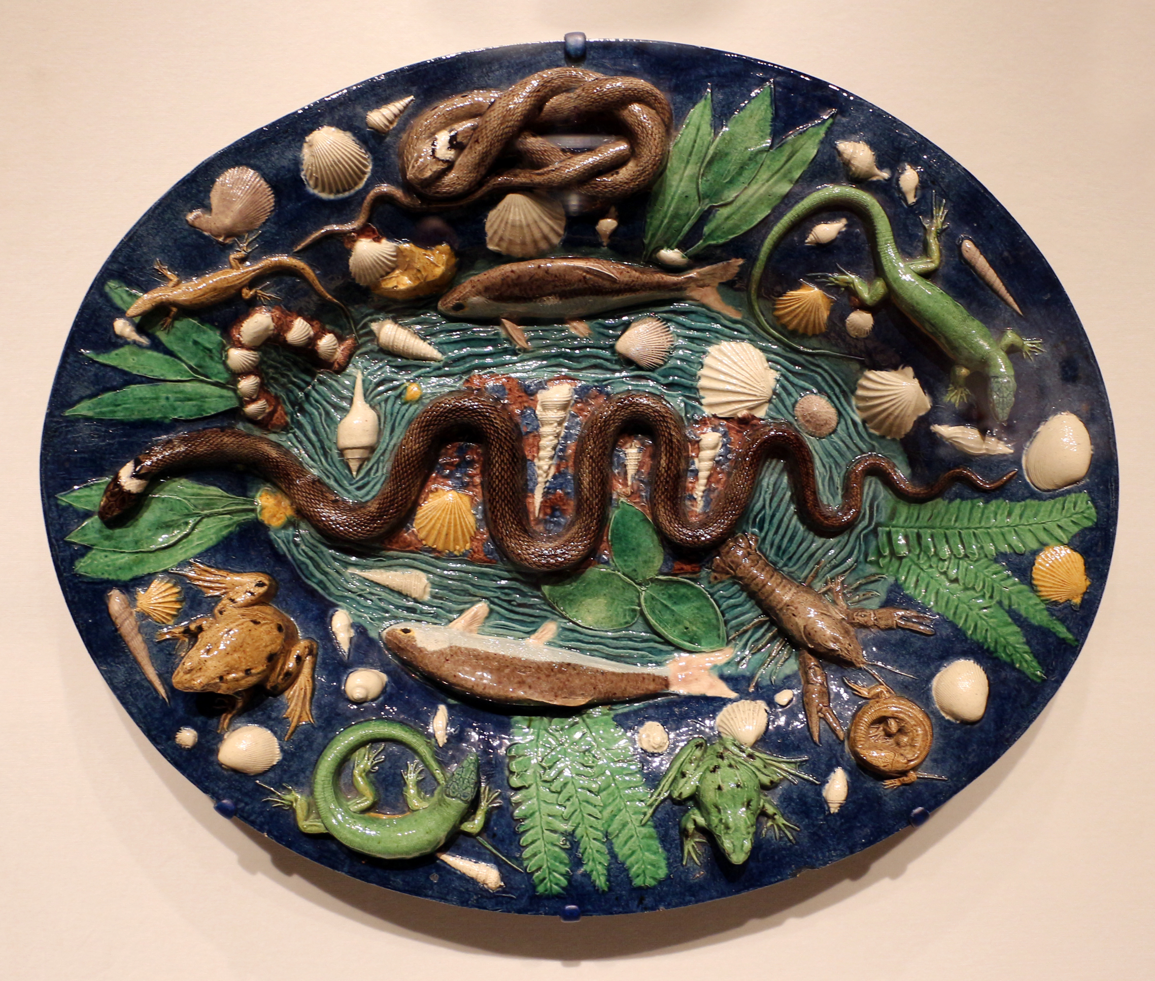 Pottery in the Cleveland Museum of Art